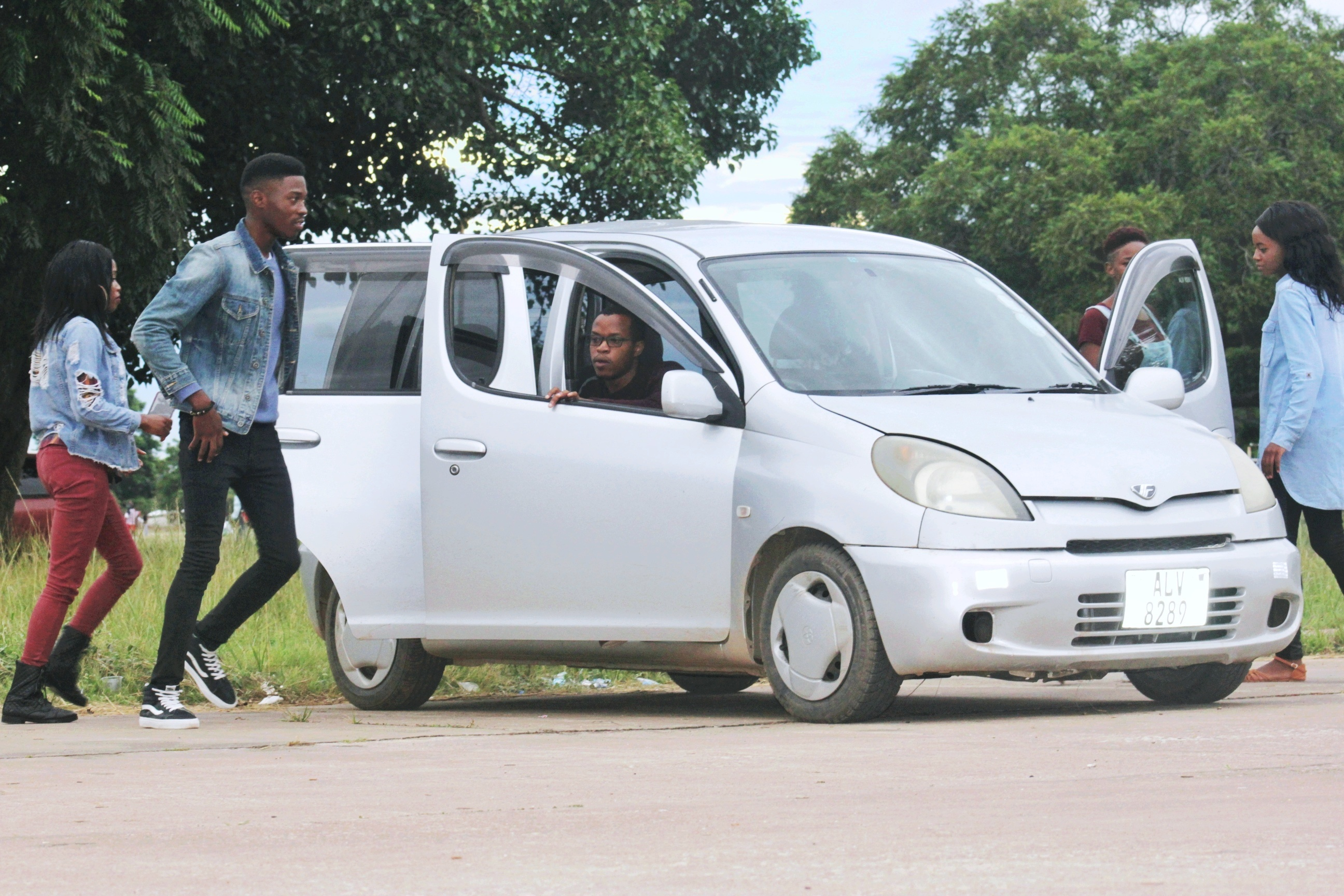 Zambian youth on the move This is an image with the theme "Africa on the Move or Transport" from: Zambia